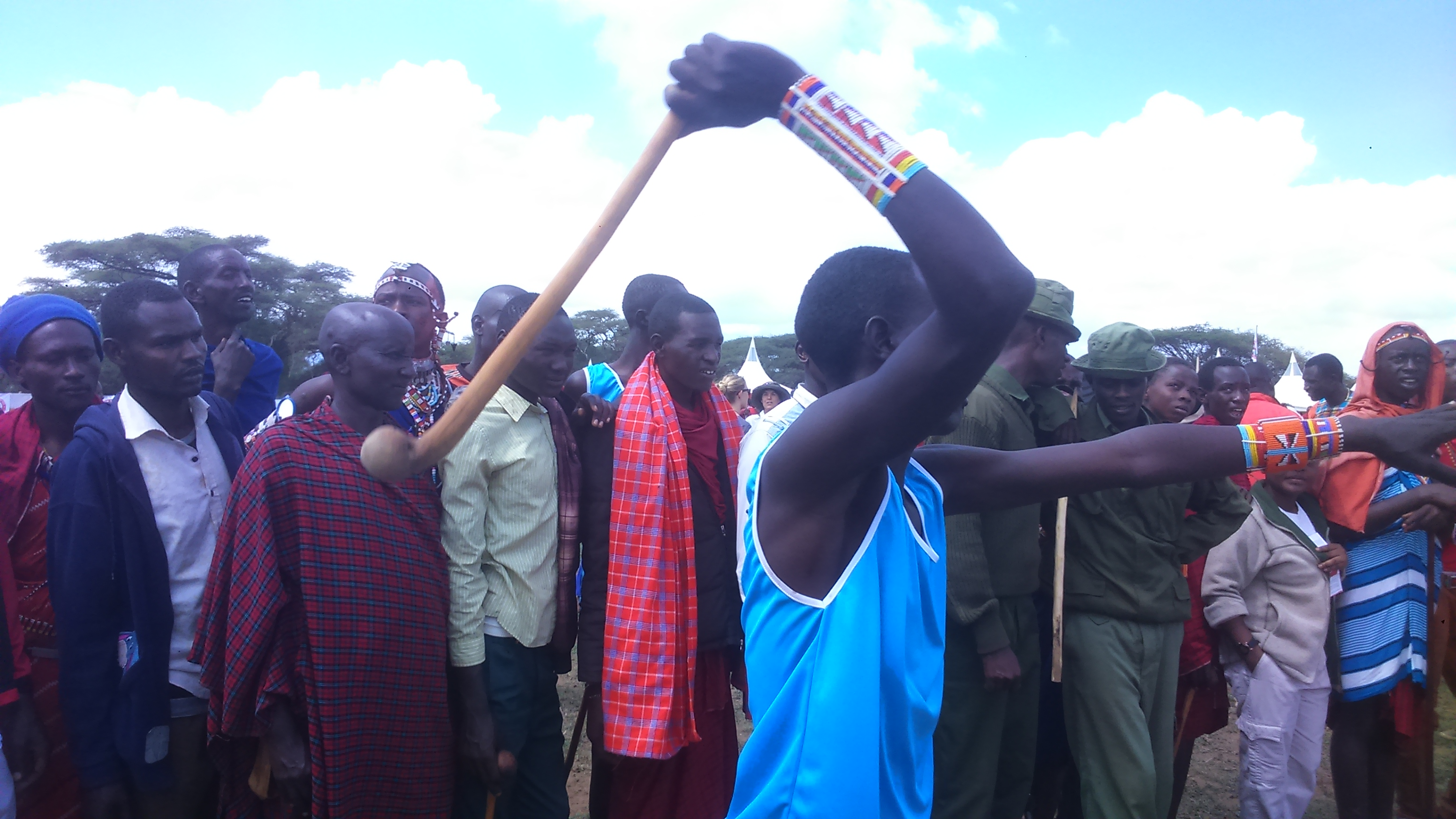 maasai olympics rungu throwing competition